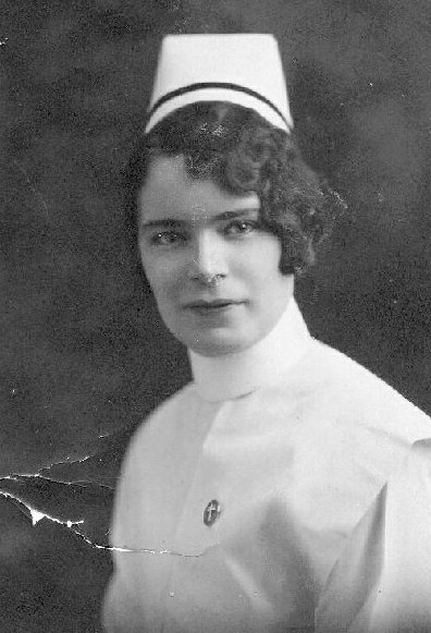 Famous nurse Édith Pinet.